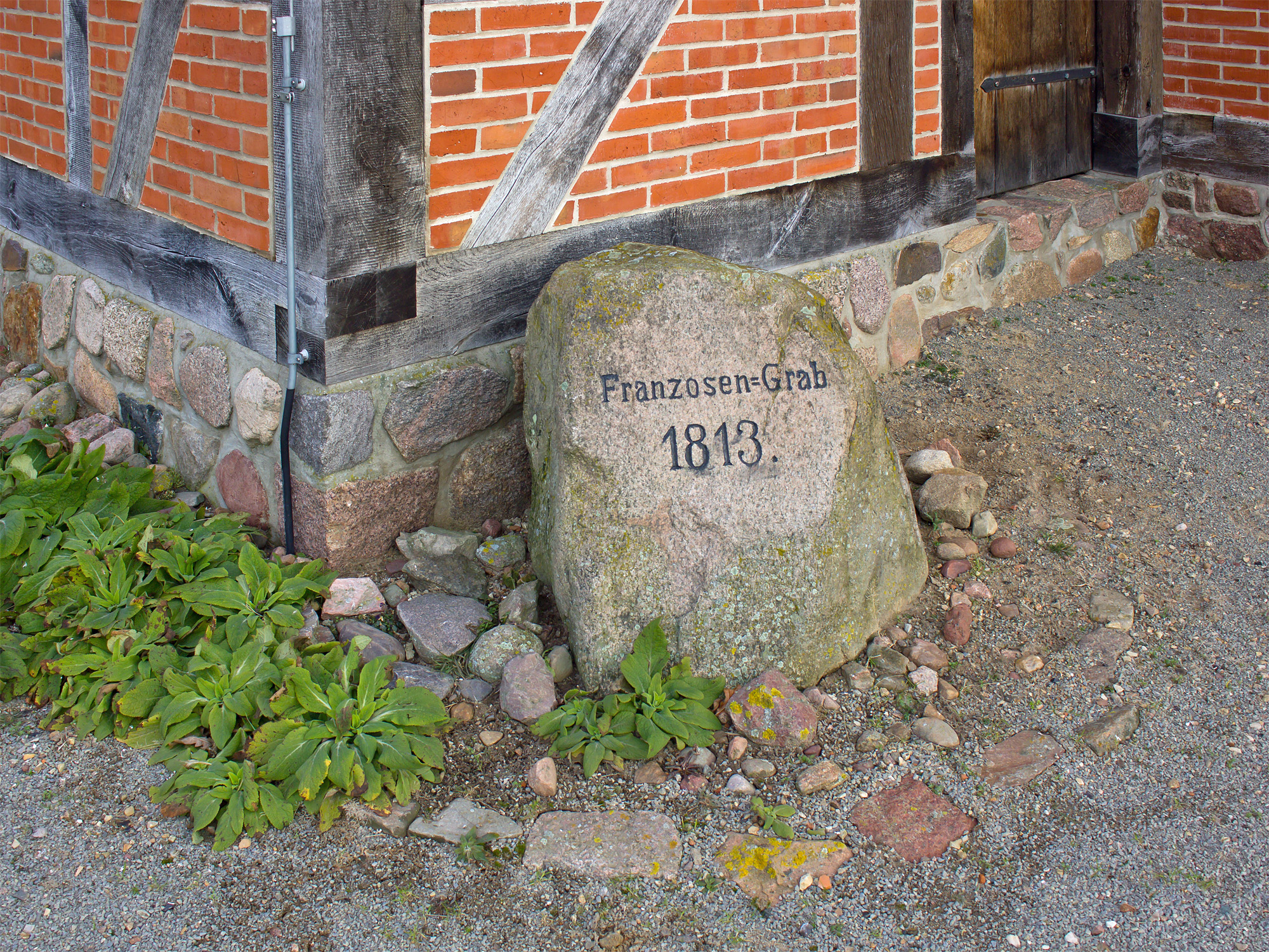 "French grave" (of Napoleonic soldiers) at the church of the village Damnatz (district Lüchow-Dannenberg, northern Germany).